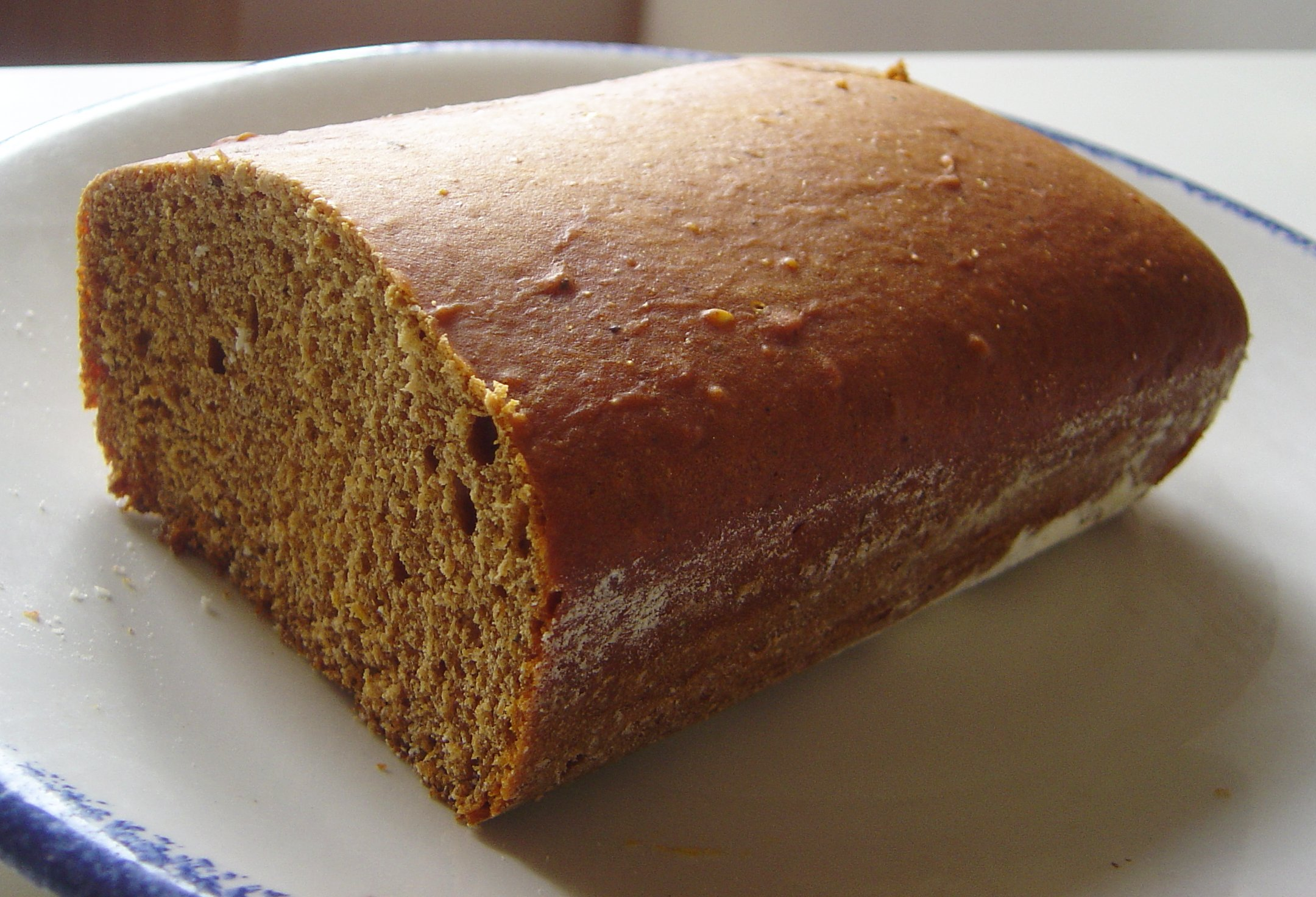 Pain d'épice (a kind of gingerbread) Pastry and photograph by myself